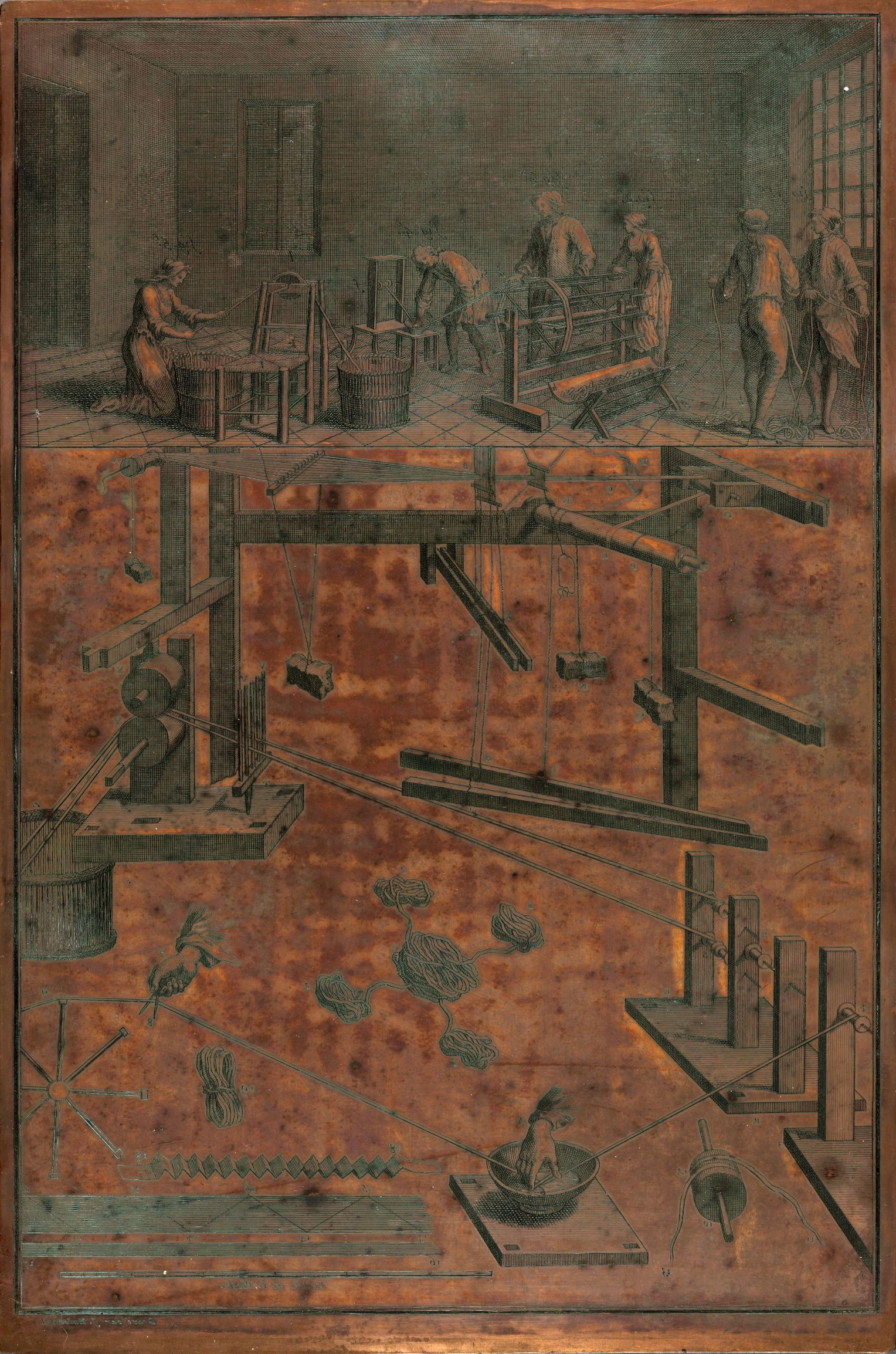 Copper plate for Description des arts et métiers. [ca. 1713-1720]. TypR-75, Houghton Library, Harvard University